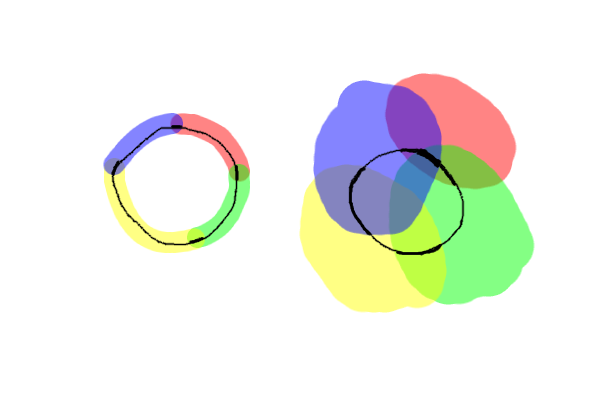 Above: Cover (four colourful sets) of a circular line (black).